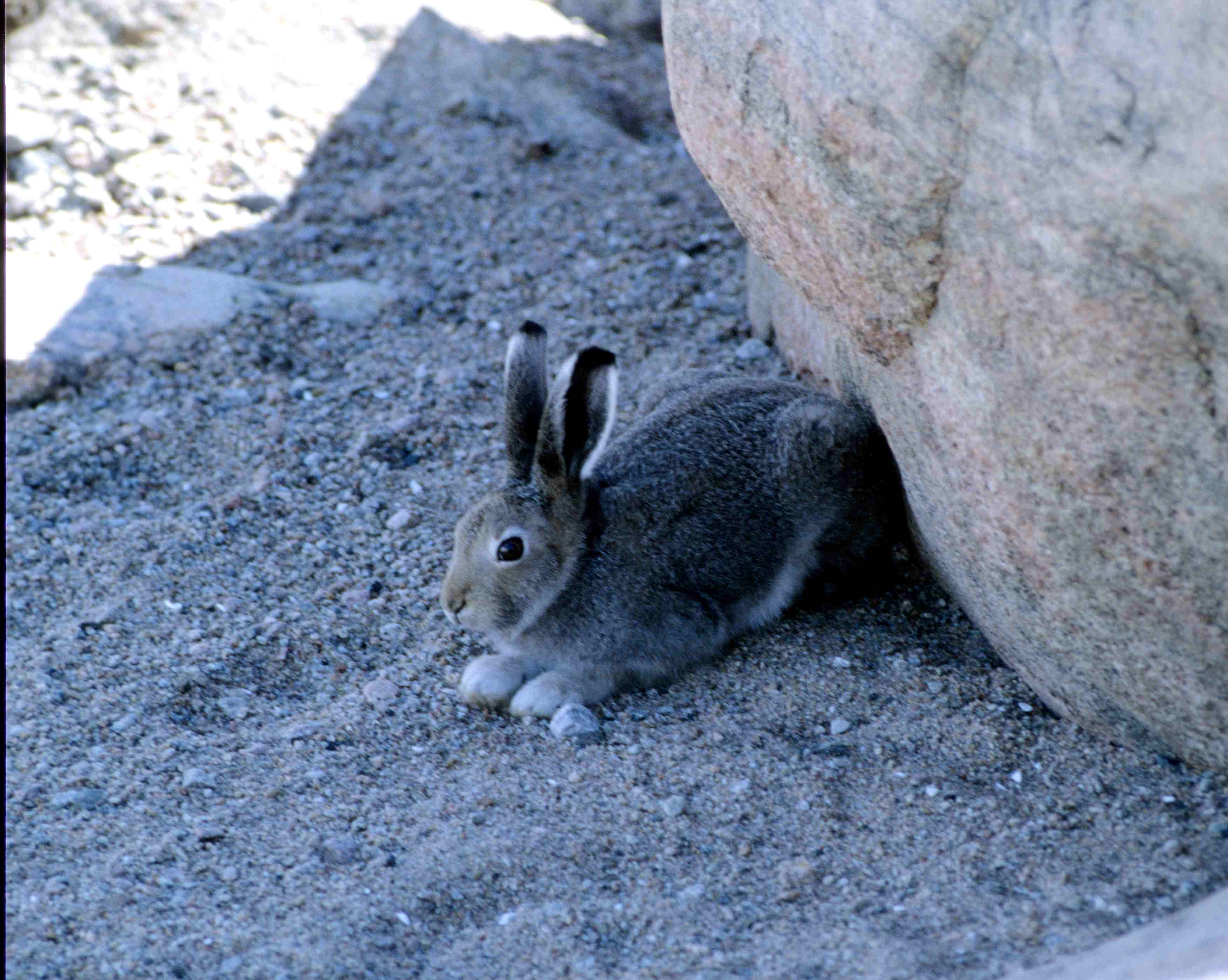 Arctic hair (summer fur), Lepus arcticus, near Wager Bay (Ukkusiksalik National Park, Nunavut, Canada)